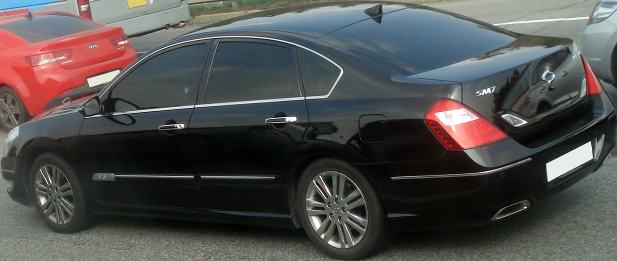 Renault Samsung SM7 New Art